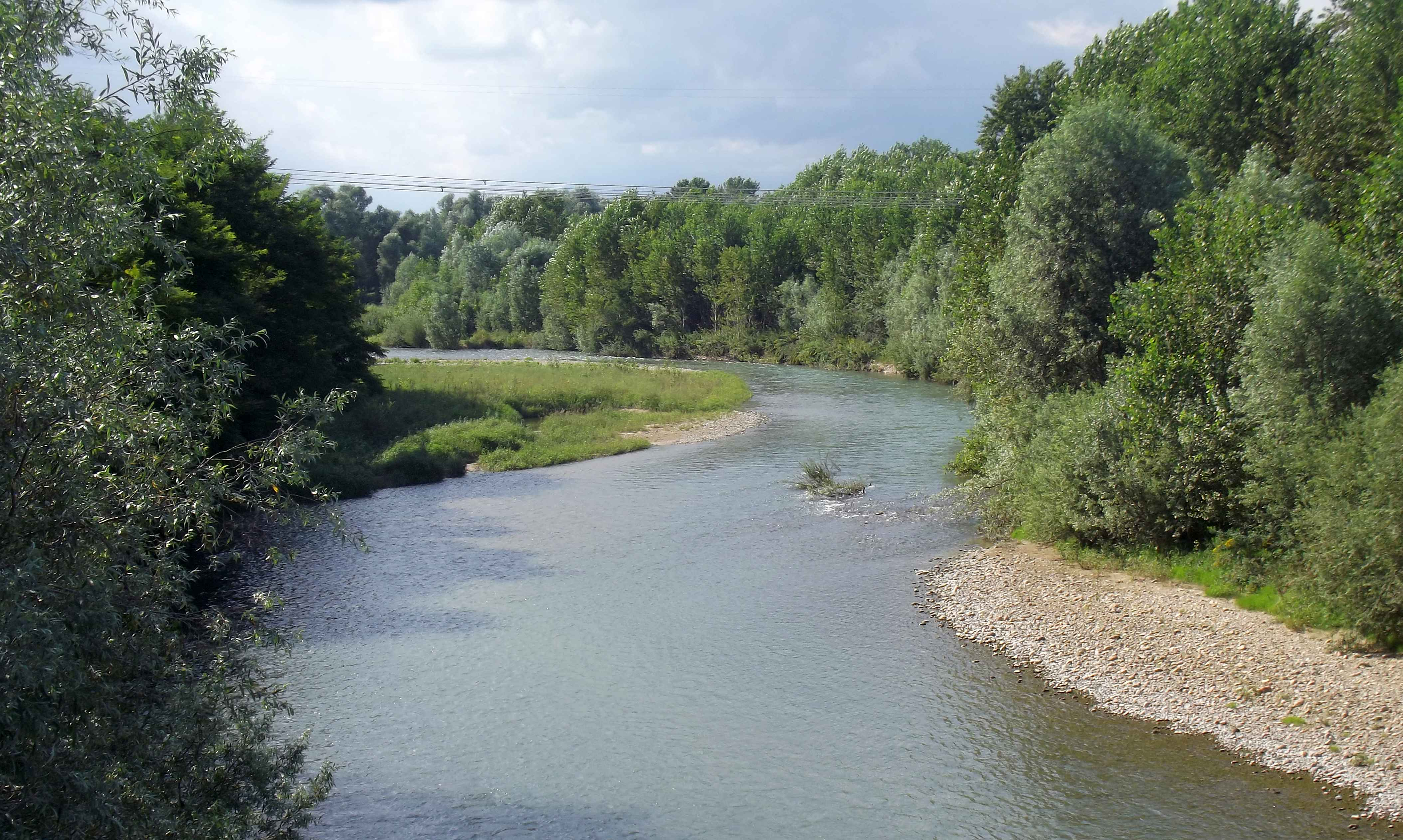 Riserva naturale speciale della Garzaia di Carisio as seen from the Elvo bridge of provincial road nr.3